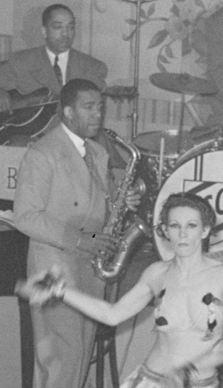 Bandleader, saxophonist, composer Boyd Atkins, on bandstand in 1941. Original caption: "Negro cabaret. Southside, Chicago, Illinois" Shows floor show of "dancing girls" in front of Boyd Atkins band at Dave's Cafe. Notes: Some details of identification not in FSA/LOC description from discussion at [1] I have confirmed the musician shown is Atkins by comparison to photos at the Hogan Jazz Archive, Tulane University. -- Infrogmation